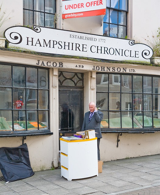 Number 57 High Street, Winchester Former offices of the Hampshire Chronicle newspaper. The paper vacated these offices in around 2003 and they have been left like this ever since. A planning application in 2004 explained "57 High Street was probably part medieval but had a double bowed window Georgian façade onto the High Street. The passageway that ran alongside the buildings from the High Street to St Clements Street had been named after two spinster sisters, Sarah and Mary Hammond, who had rented what is now 57 High Street in 1767. The Hampshire Chronicle newspaper had been associated with the building from 1788 and the freehold was sold to the partnership of Jacob and Johnson (the current owners) in 1852." The gent in front of the building may have been there because of the Hat Fair.